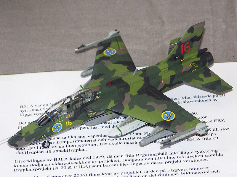 SAAB project B3LA, a groundattack/training aircraft